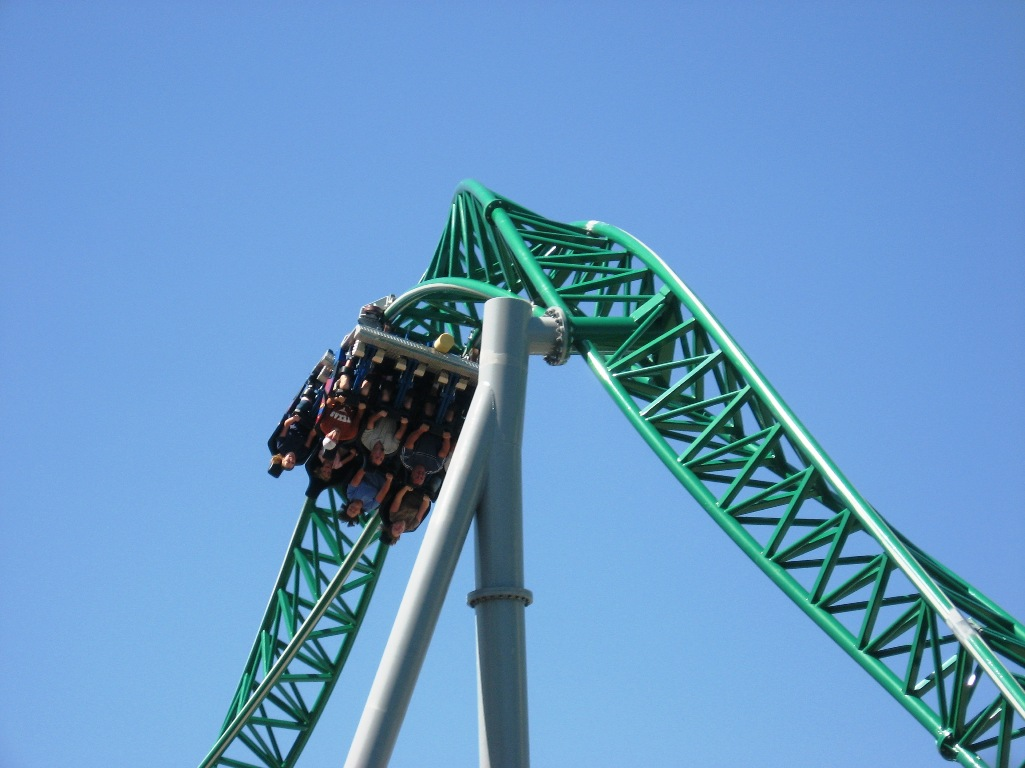 Wicked at Lagoon Amusement Park